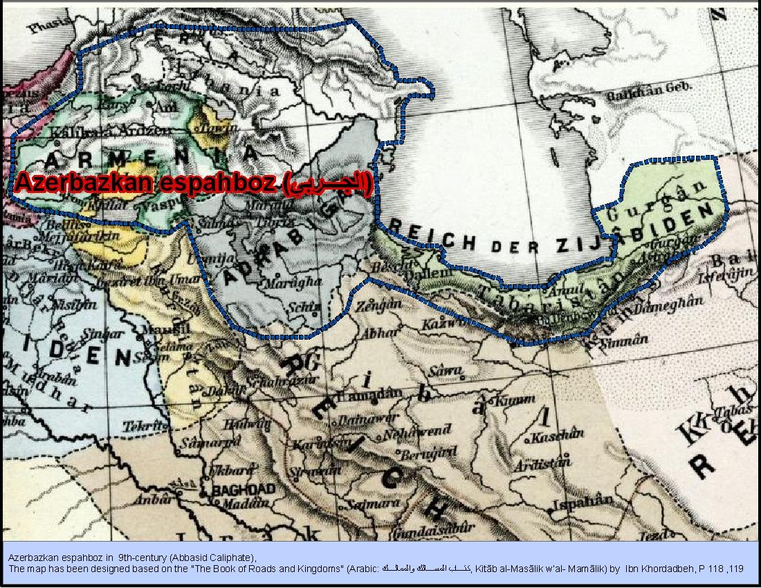 Based on: 1- The Book of Roads and Kingdoms (Arabic: كتاب المسالك والممالك, Kitāb al-Masālik w’al- Mamālik) by the Persian geographer Ibn Khordadbeh, pp. 118 & 119